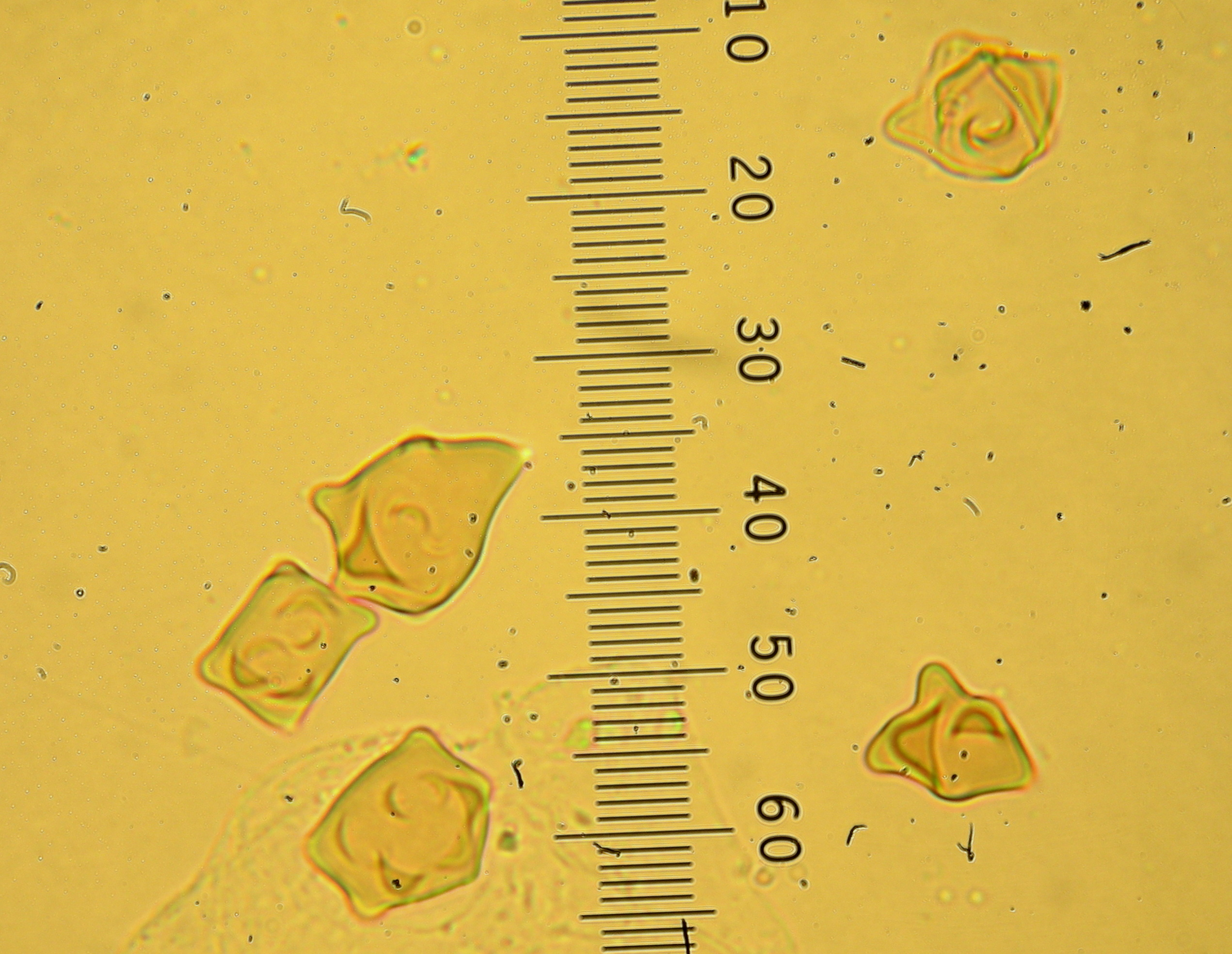 Spores of Inocybe oblectabilis (Britzelm.) Sacc. Image location: Evergreen Rd., Stanislaus National Forest, Tuolumne Co., California, USA The spores on these were coarsely nodulose and ~ 11.0-13.0 X 7.5-10.1 microns. Cheilocystidia was found but rather small and not too plentiful. Based Id on limited references…some reddish-brown tints on the cap and the very nodulose spores. Used references: Mushrooms Demystified, David Arora. Mushroom Hobby website. For more information about this, see the observation page at Mushroom Observer.